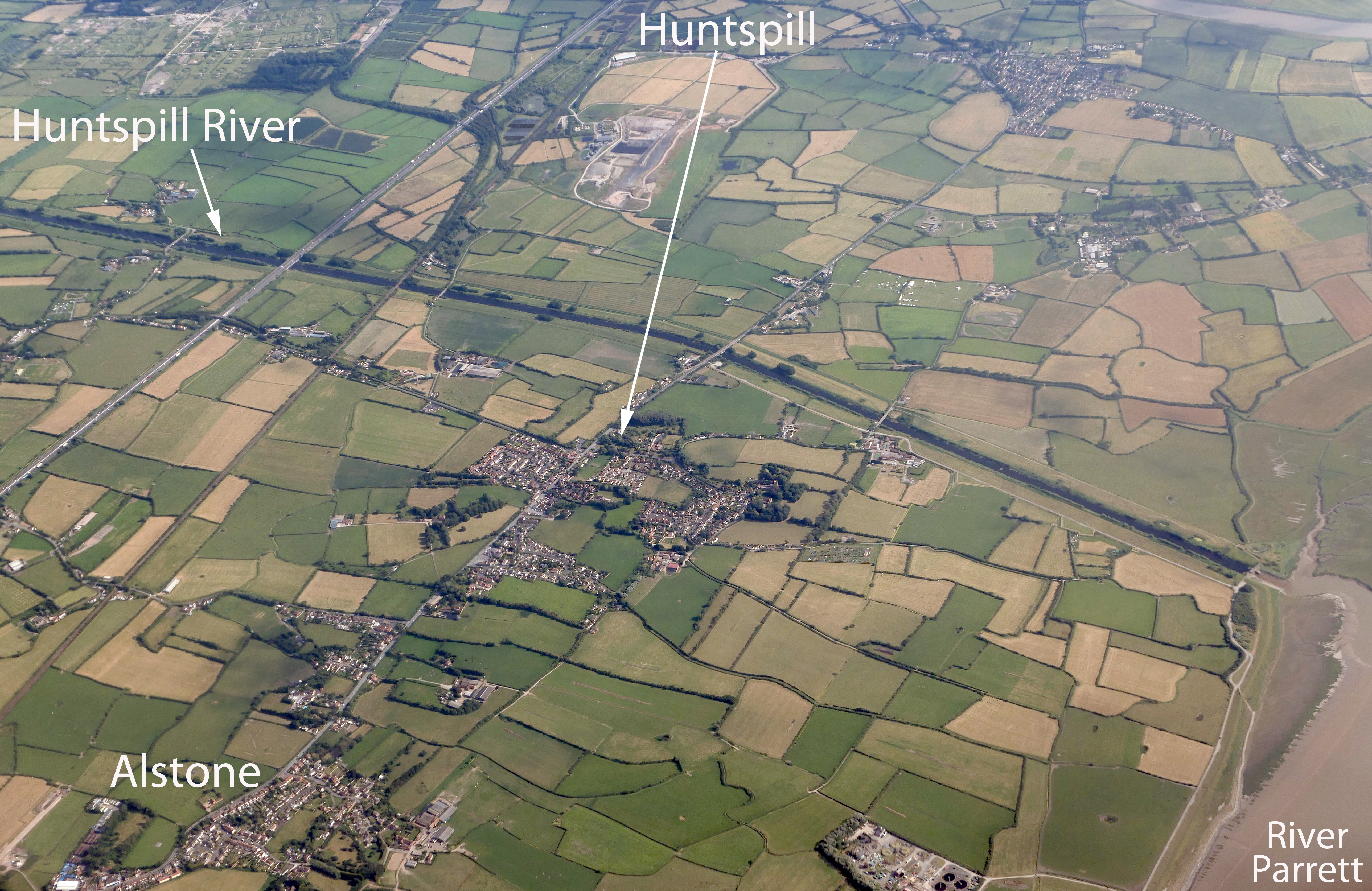 An aerial view of the villages of Huntspill and Alstone in Somerset, England.